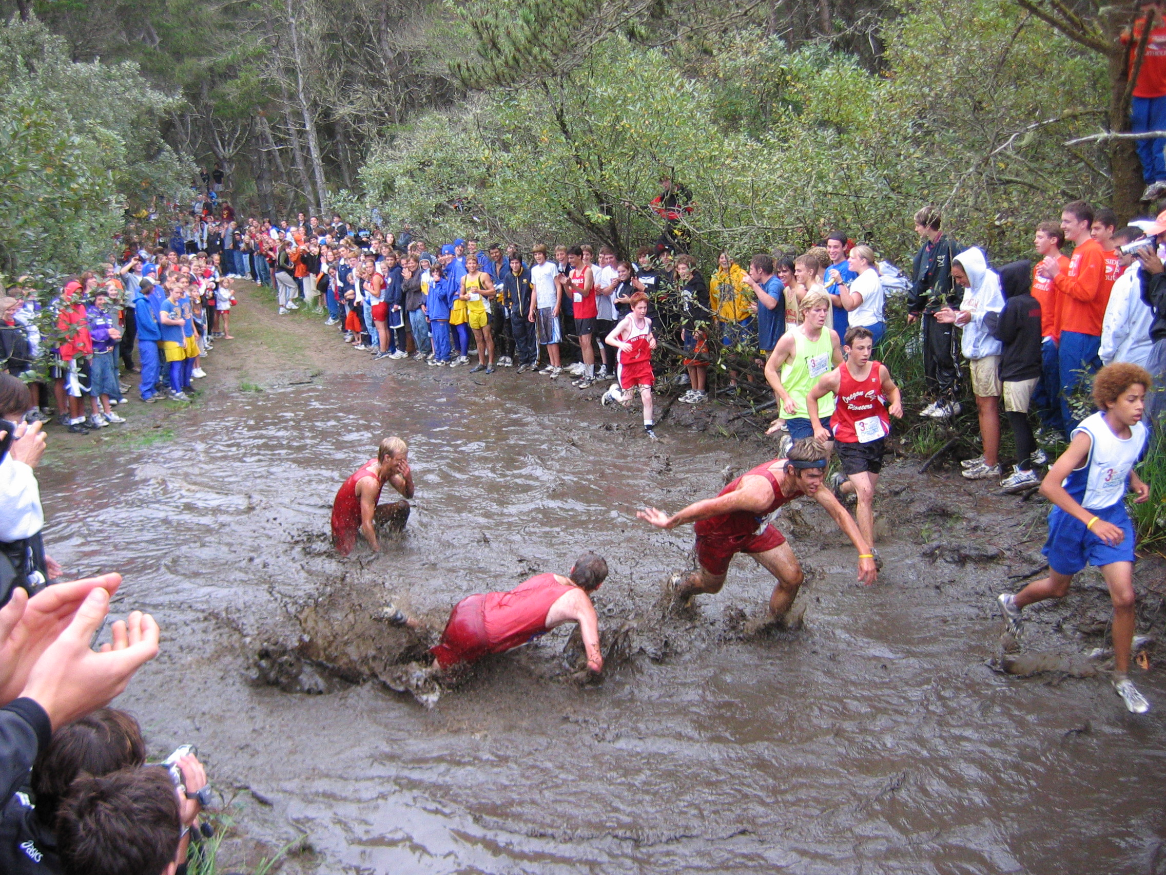 This cross-country race course in Seaside includes many obstacles, but not to hinder the runners' performance. This type of challenge is what cross country is all about! It is rare, however, to see a large pool of water like this on a course.